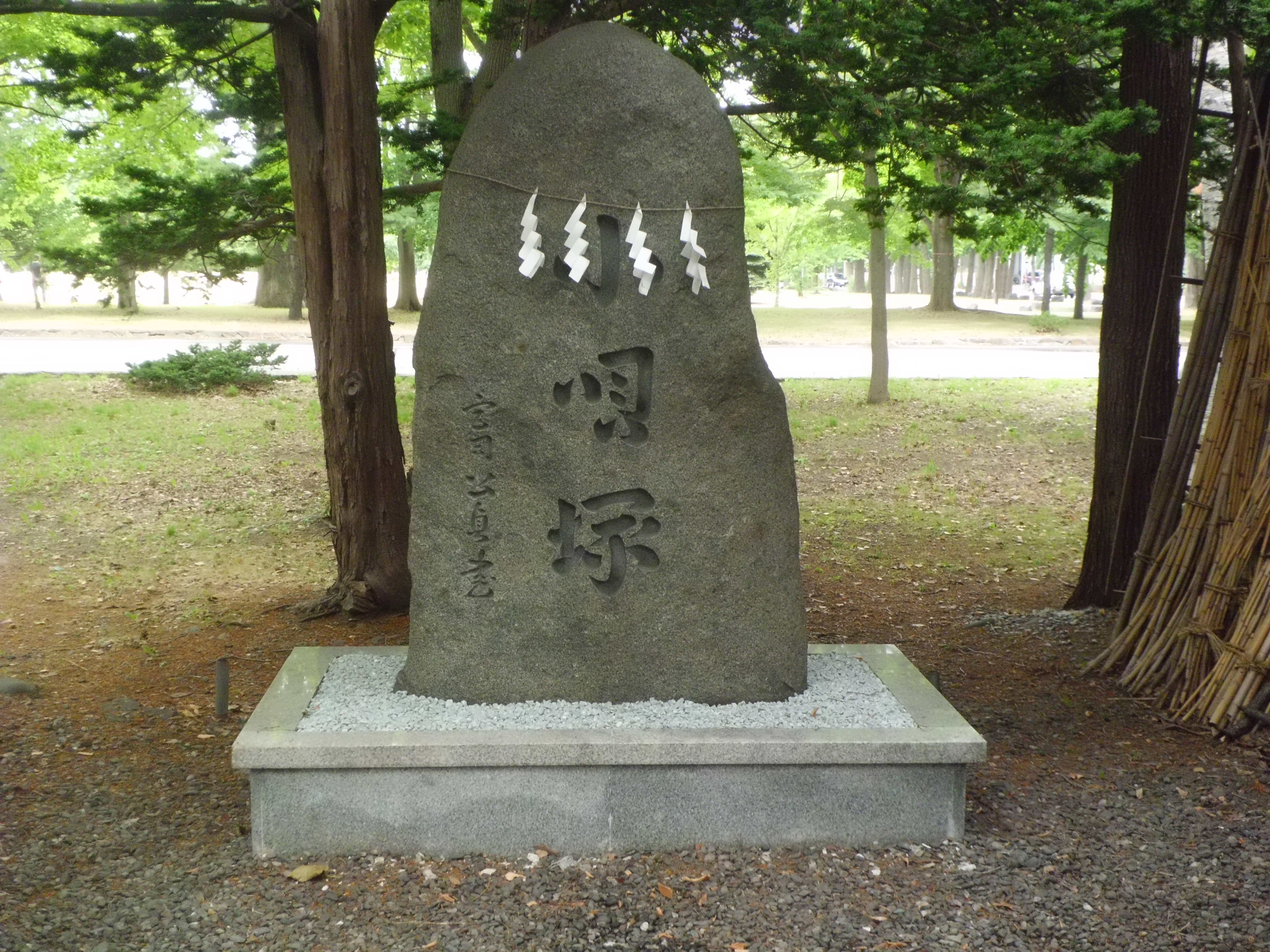 Kouta-zuka at Iyahiko Shrine